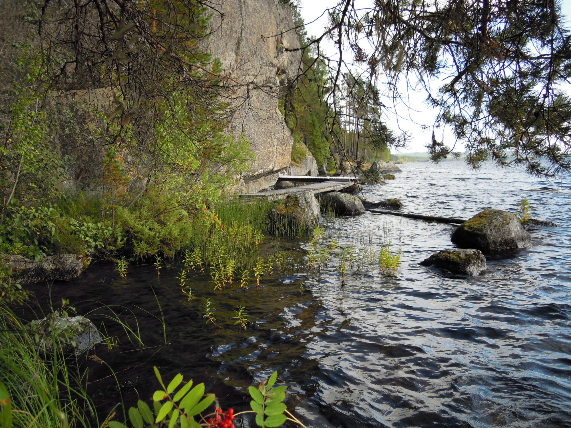 Rock art site at Fångsjön